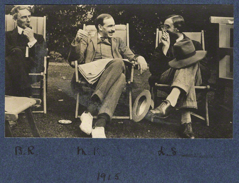 Photograph of Bertrand Russel, John Maynard Keynes and Lytton Strachey